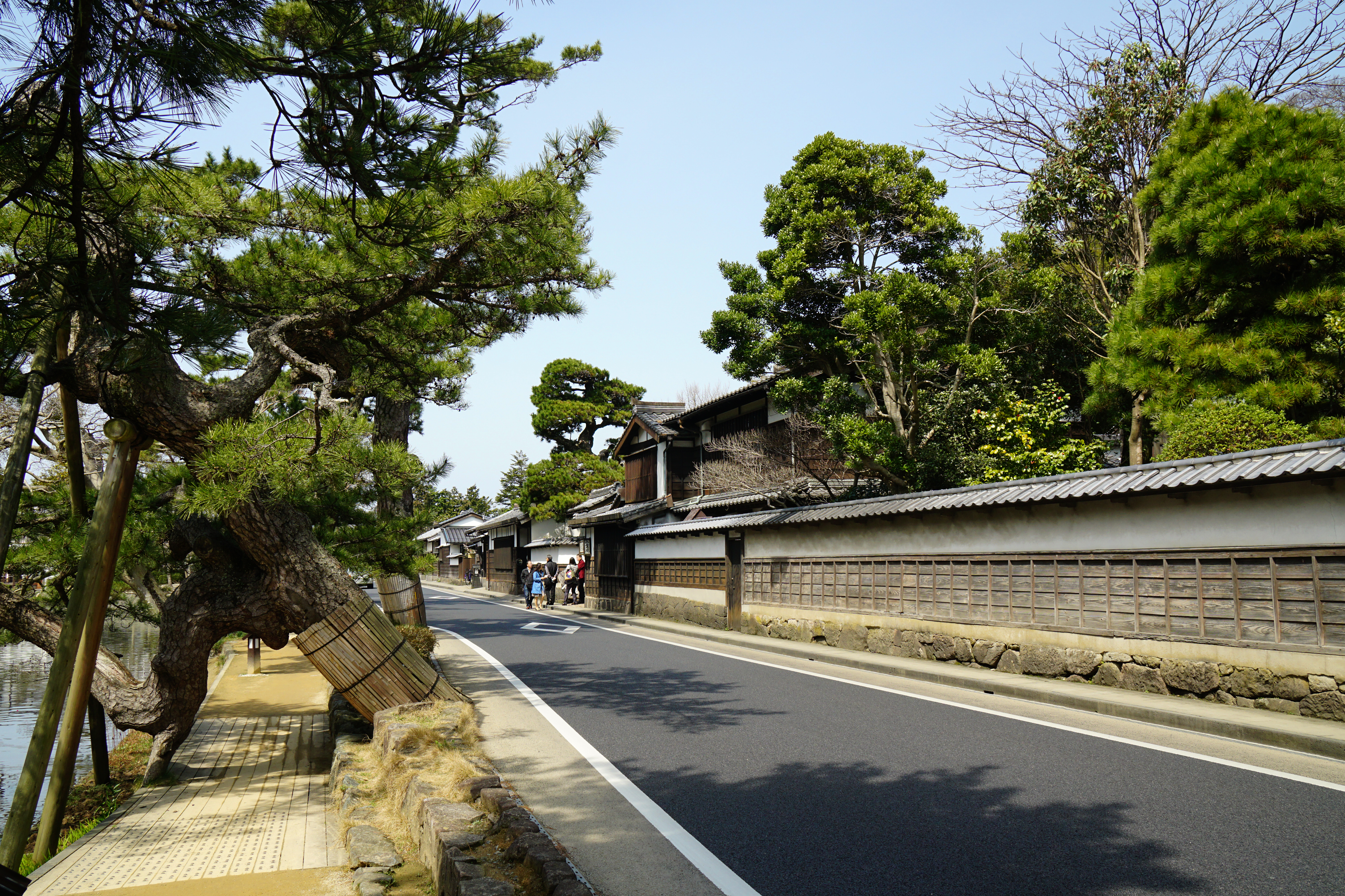 At Shiominawate, Matsue, Shimane prefecture, Japan